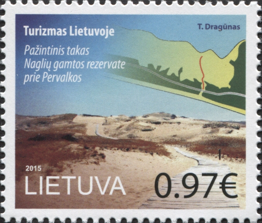 Stamps of Lithuania, 2015